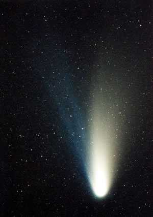 Comet Hell_Bopp C1995O1